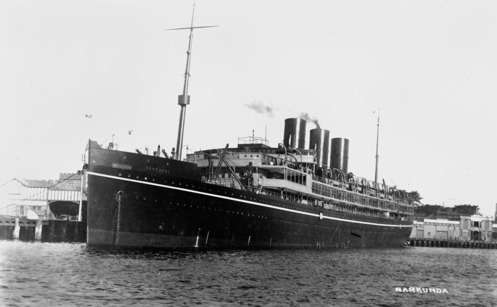 Narkunda, a P & O passenger ship Narkunda was built in 1920 and weighed 16,227 tons. She was bombed and sunk near Africa on 14 November 1942. (Description supplied with photograph).